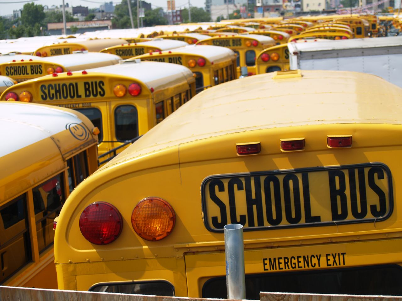 The tops of many school buses.